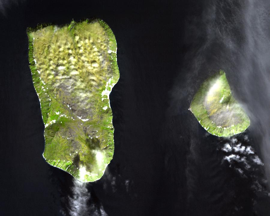 Diomede Islands in the middle of the Bering Strait:. The islands are separated by the border between Russia and the USA and by the International Date Line. Western: Russian island of Big Diomede, Imaqliq, Nunarbuk or Ratmanov Island Eastern: U.S. island of Little Diomede, in its native language Inaliq or Krusenstern Island (this is the island Sarah Palin was talking about when she said, "They're our next-door neighbors, and you can actually see Russia from land here in Alaska, from an island in Alaska.") The image was acquired July 8, 2000, covers an area of 13.5 x 10.8 km, and is located at 65.8 degrees north latitude, 169 degrees west longitude.